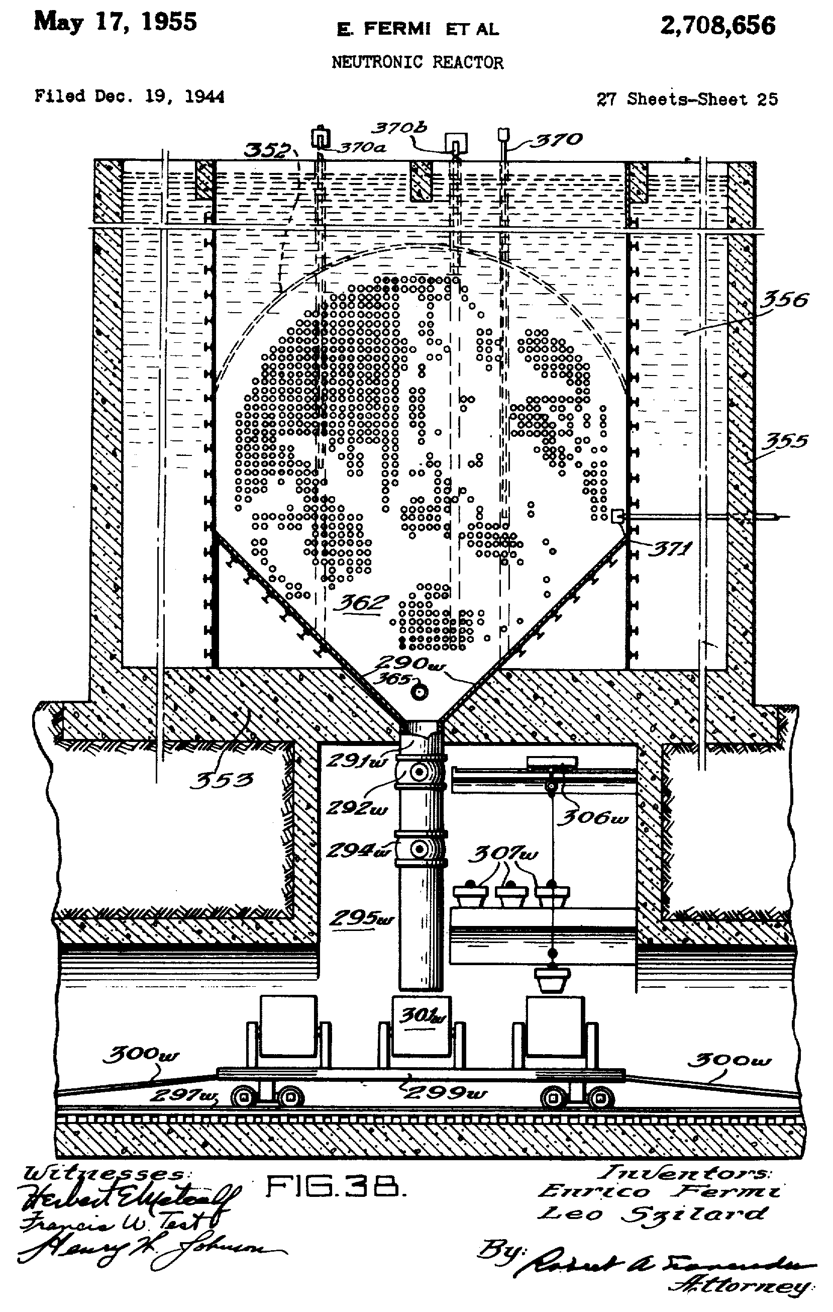 Vertical section view (partly in elevation) of a liquid cooled reactor shown in Fig. 37, and taken as indicated by line 38—38 in Fig. 37 from "Neutronic Reactor" patent awarded to Enrico Fermi and Leó Szilárd